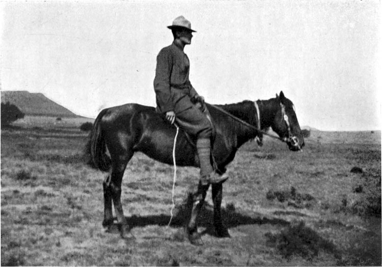 Howard C. Hillegas. Illustration caption: AUTHOR AND A BASUTO PONY WHICH ASSISTED IN THE FIGHT AT SANNASPOST.